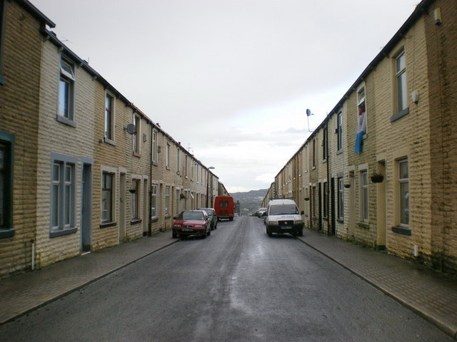 Healey Wood Road